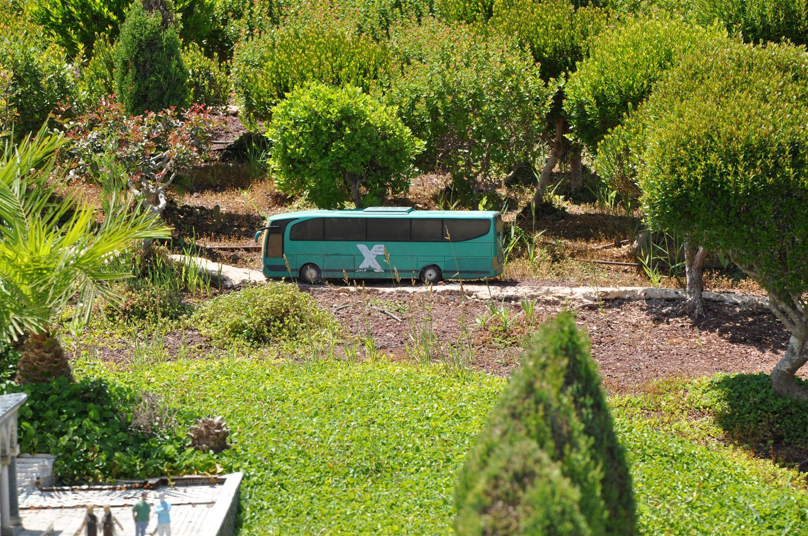 Mini Israel, Geography of Israel